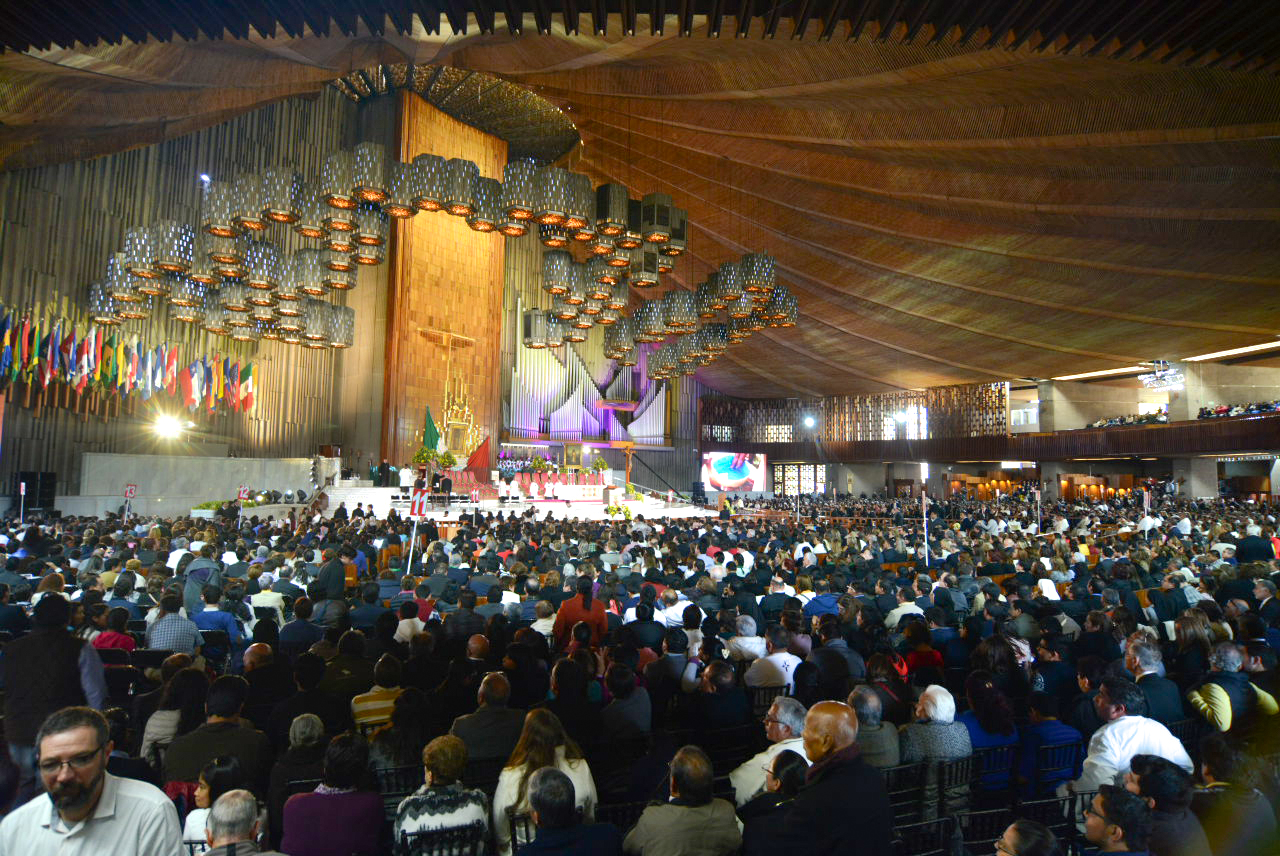 MEXICO CITY,MEXICO: Thousands of faithful flock to the Mass to be celebrated at Our Lady of Guadalupe Basilica. Photo by Marko Vombergar/ALETEIA